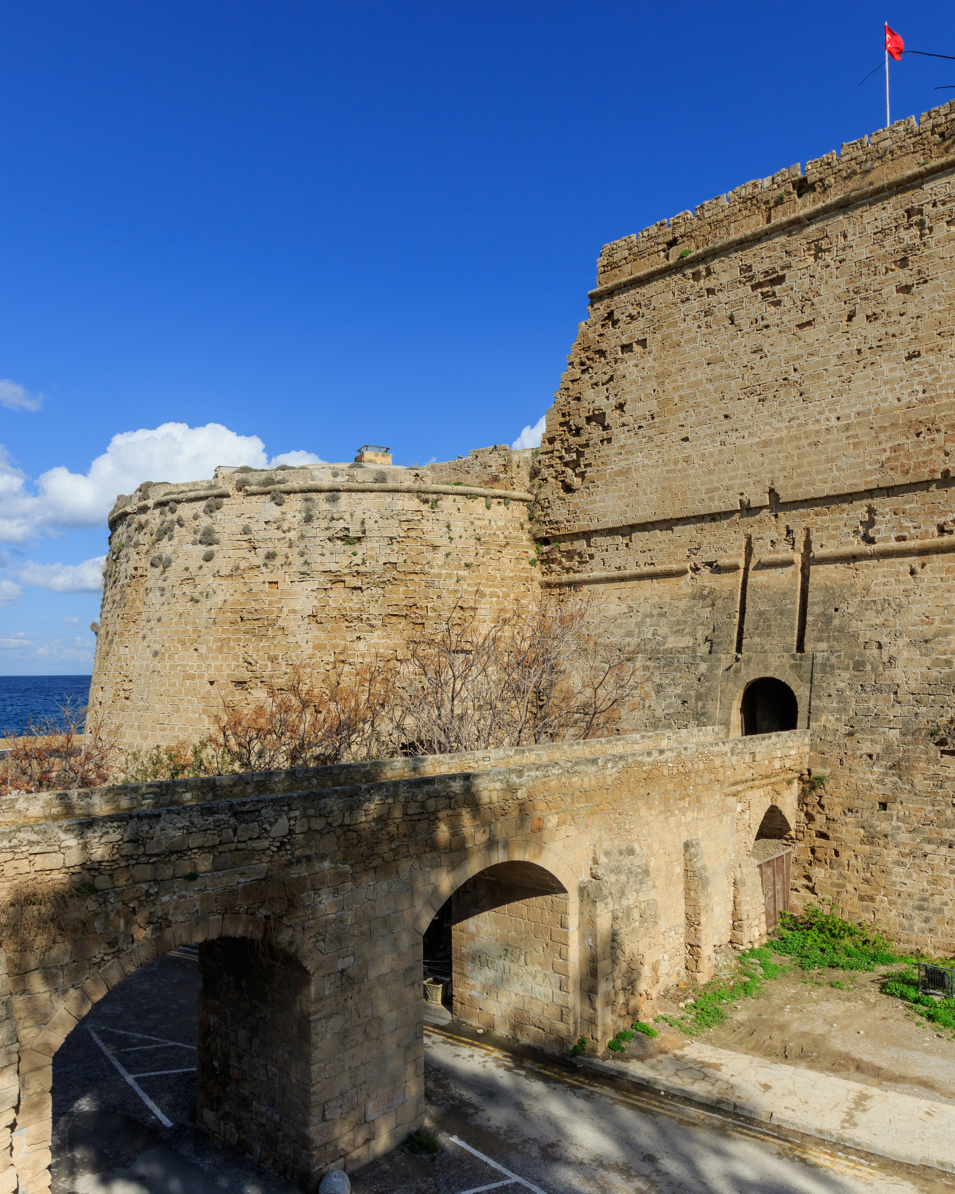 Exterior of the castle in Kyrenia, Cyprus